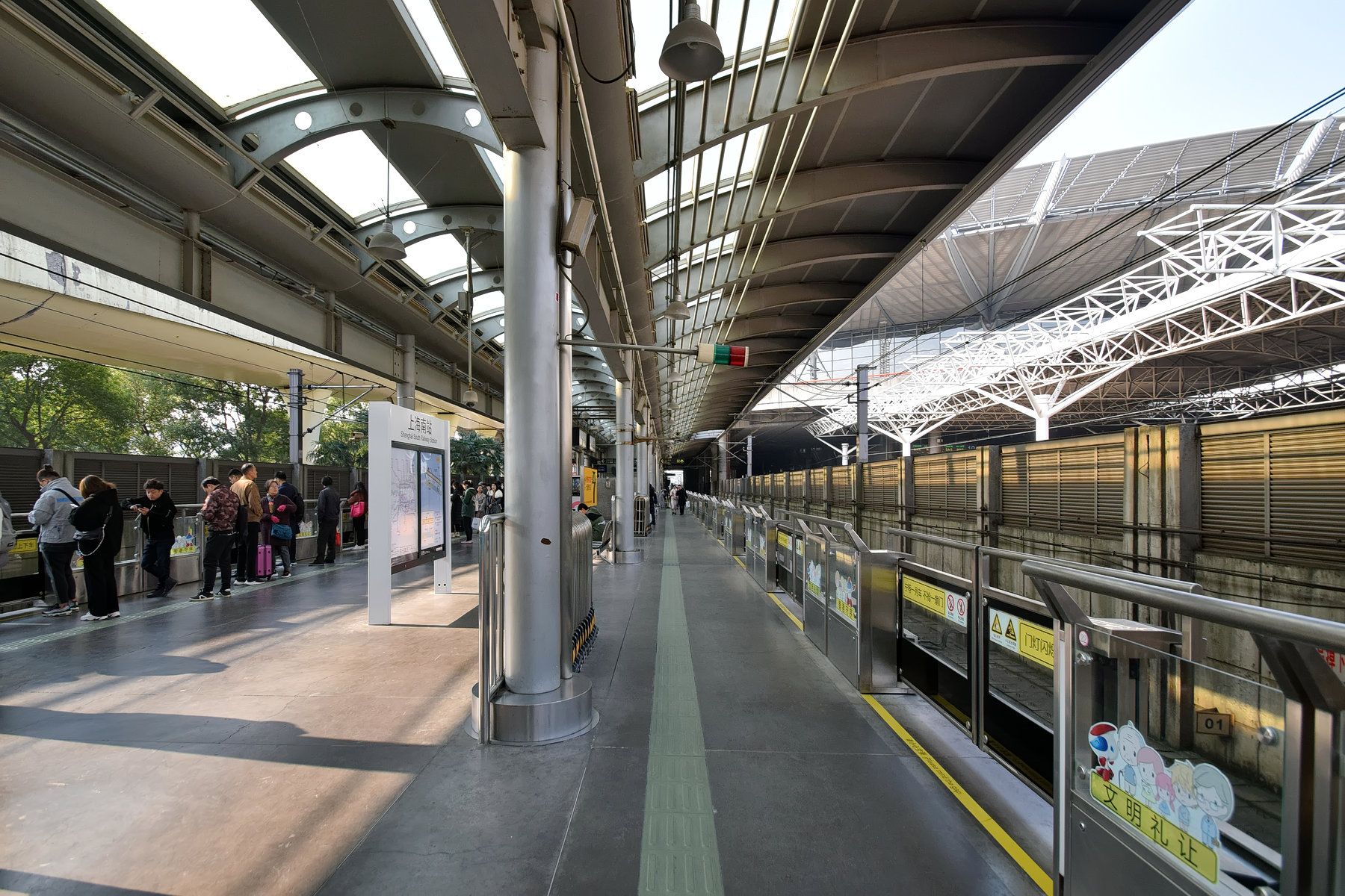 Line 3 Platform of Shanghai South Railway Station Station, Shanghai Metro